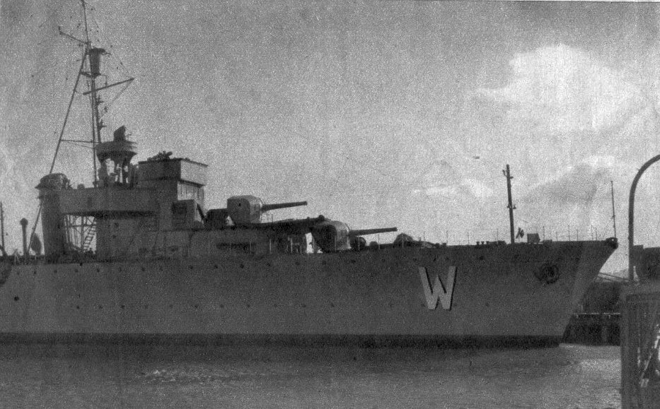 Polish destroyer ORP Wicher (W) about 1935